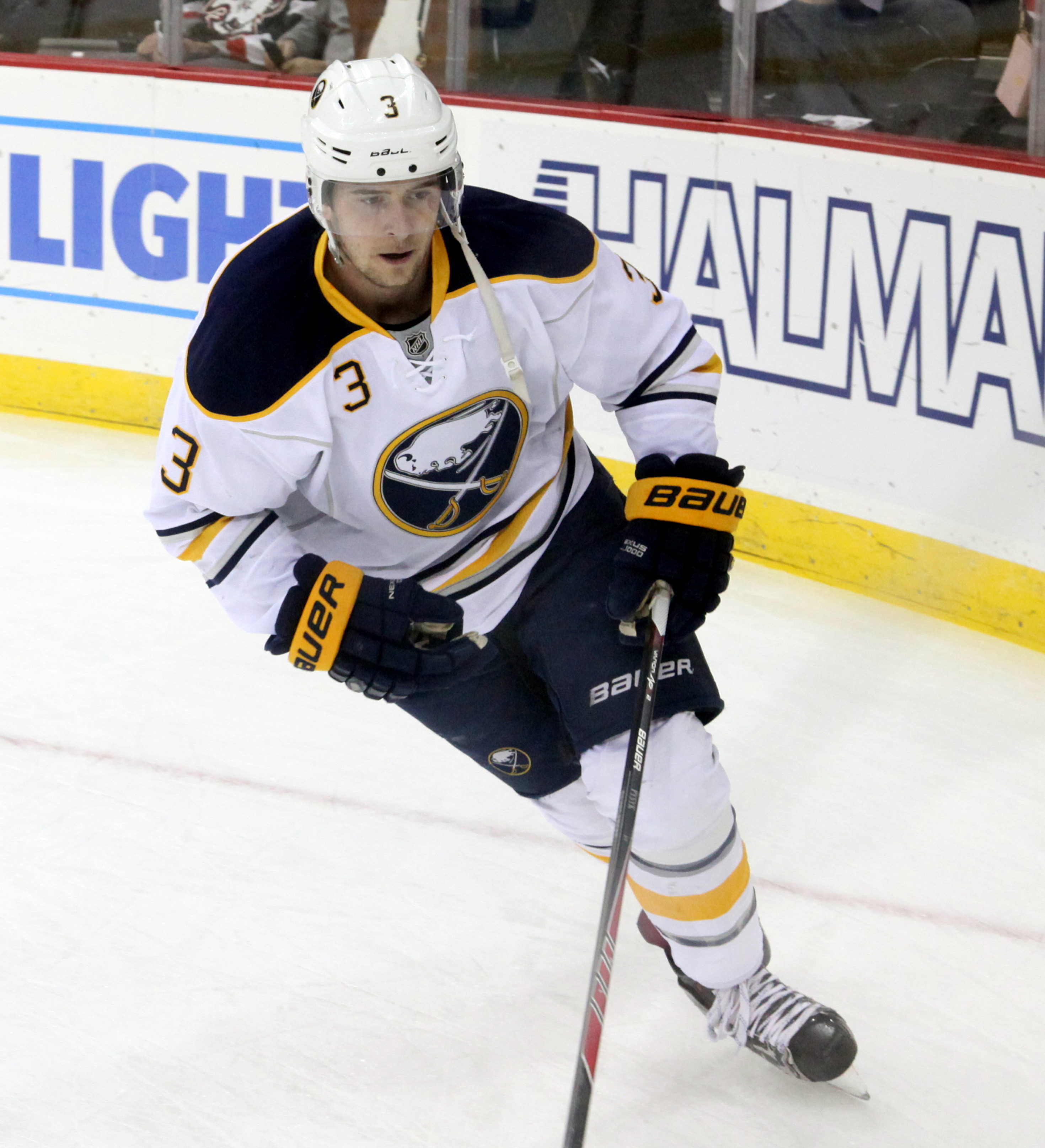 Mark Pysyk in April 2016.